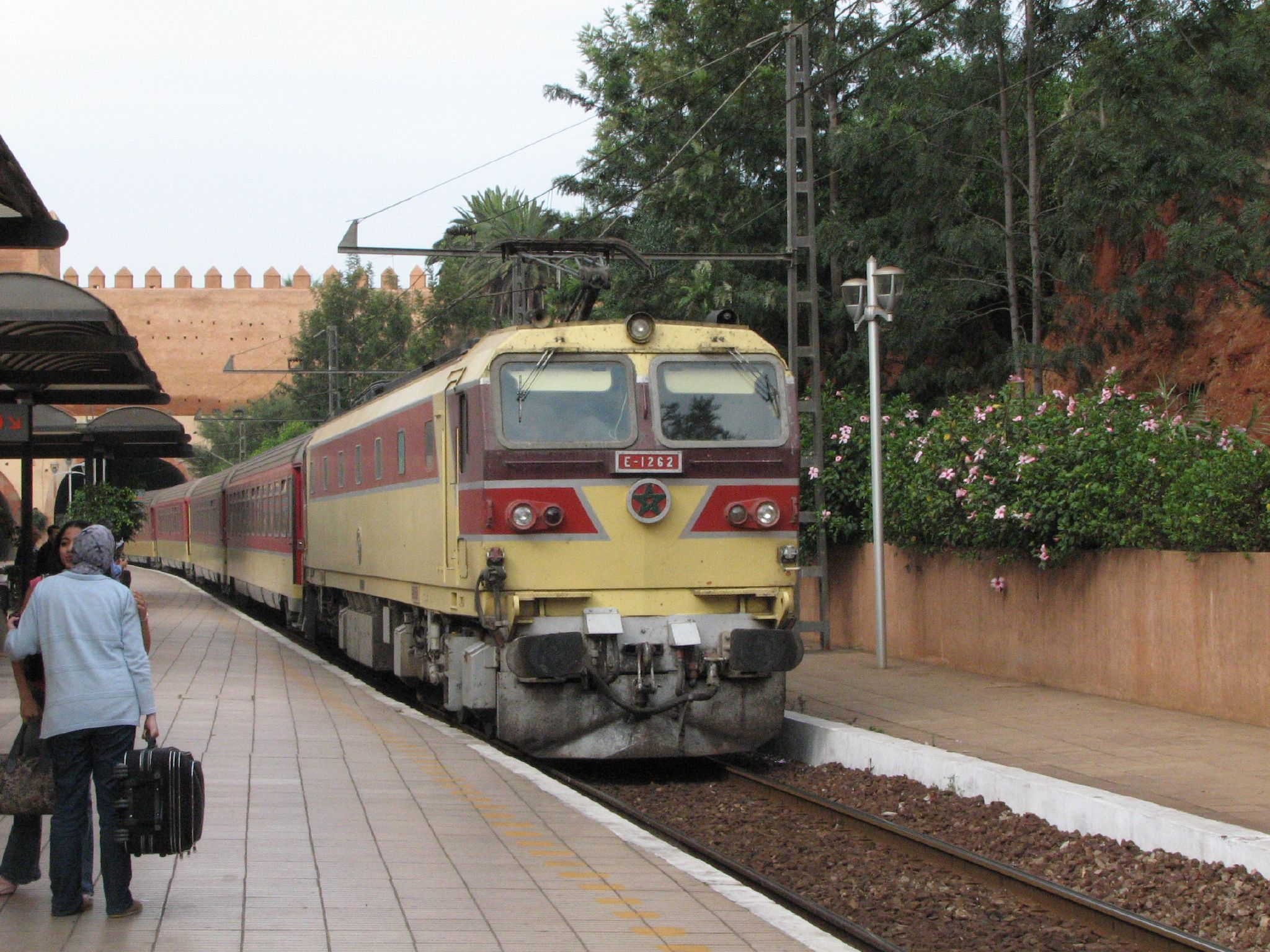 Train heading Fes at Rabat Train Station